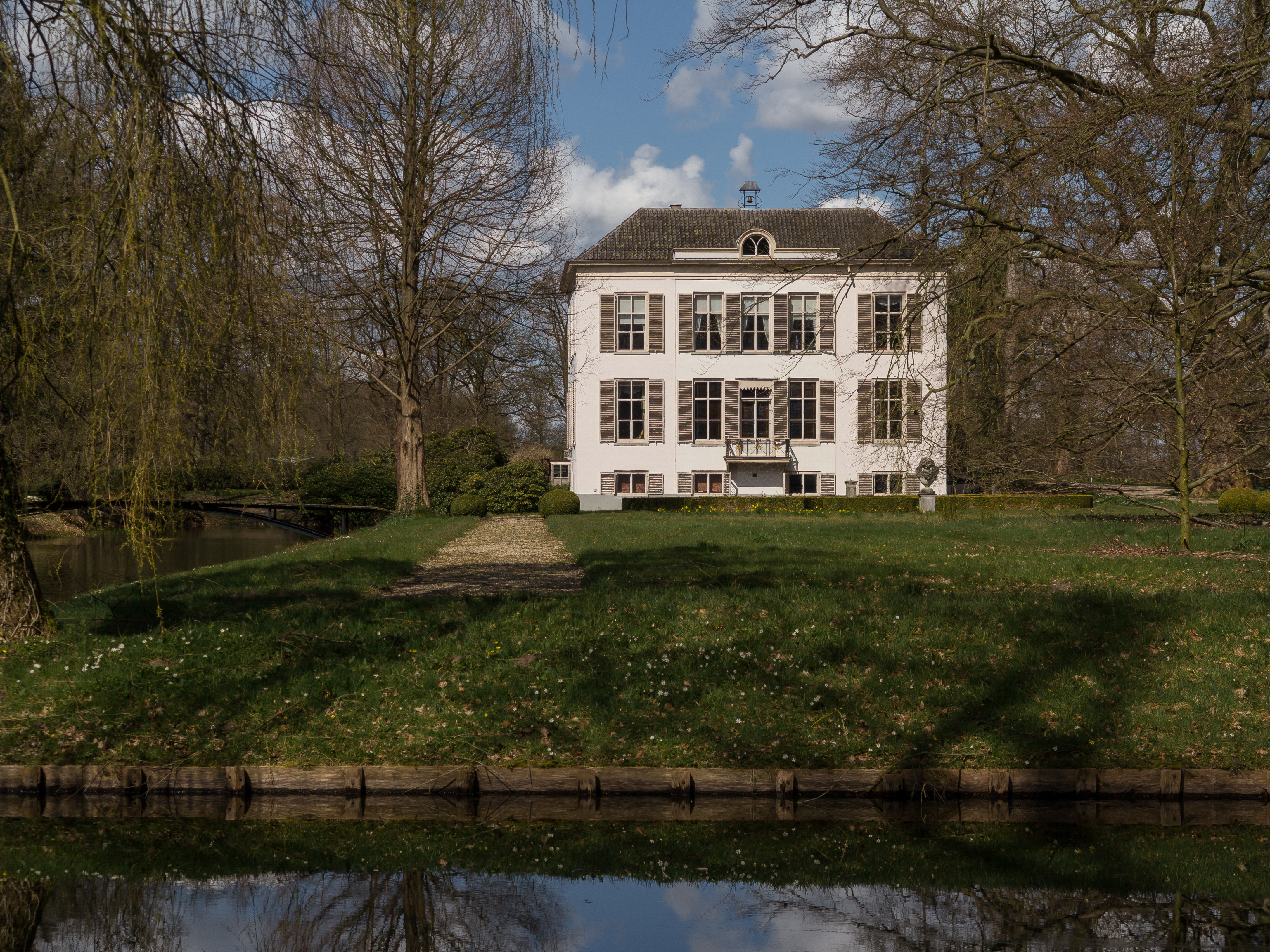 Voorstonden, castle: Huis Voorstonden